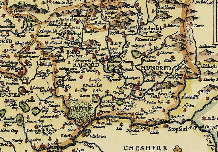 John Speed's map of Lancashire is one of the earliest and shows towns and villages but no highways.